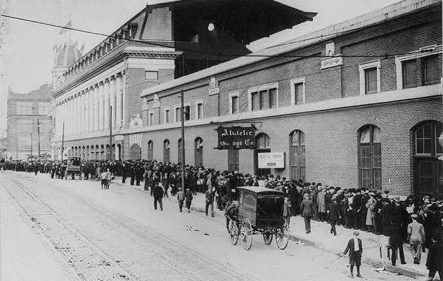 Shibe Park box office during 1911 World Series, showing tail of line further down Lehigh Ave, Philadelphia